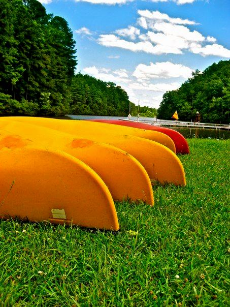 A picture of some camp's canoes with Lake Sabotta in the background.